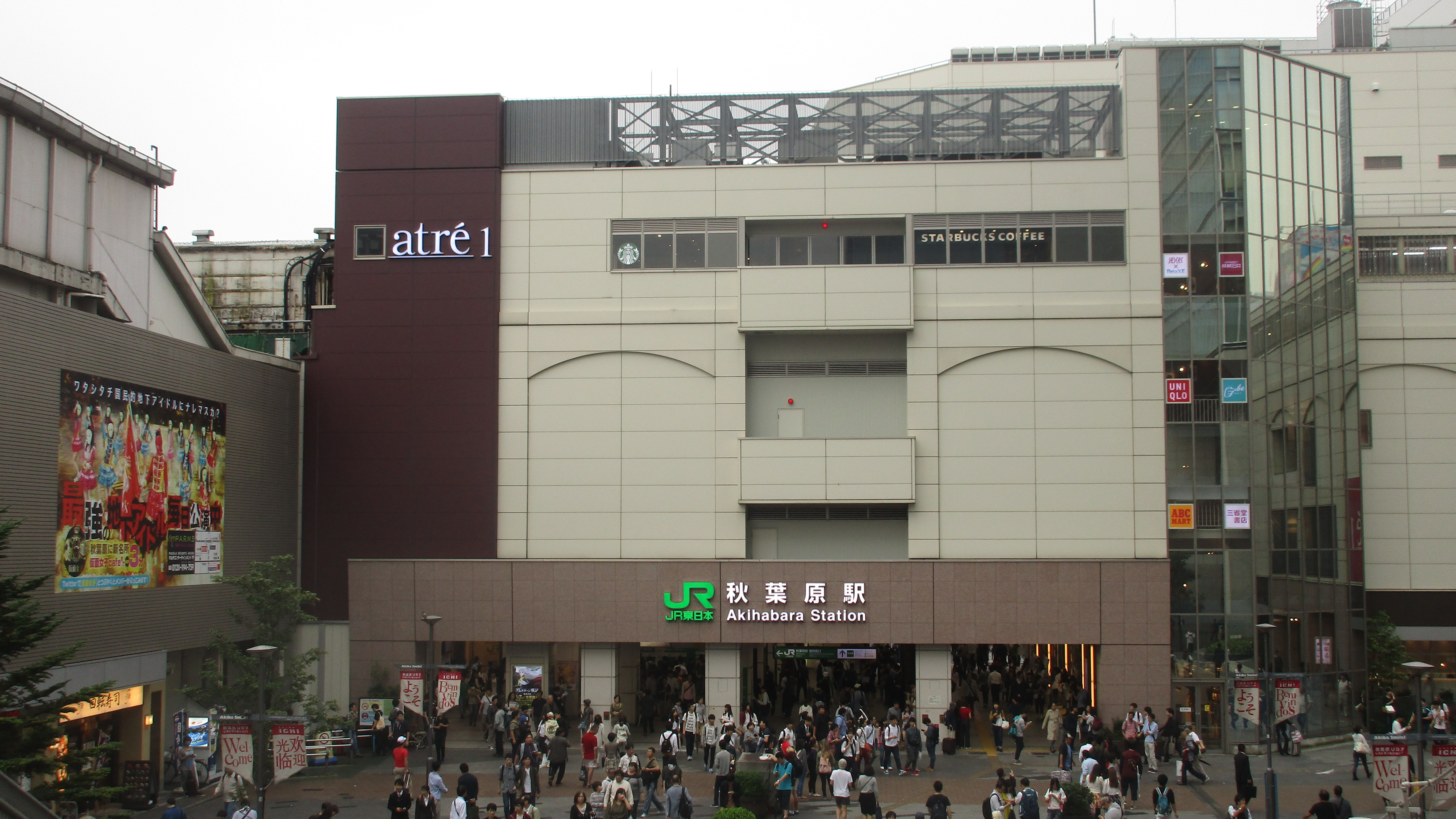 JR総武本線 秋葉原駅